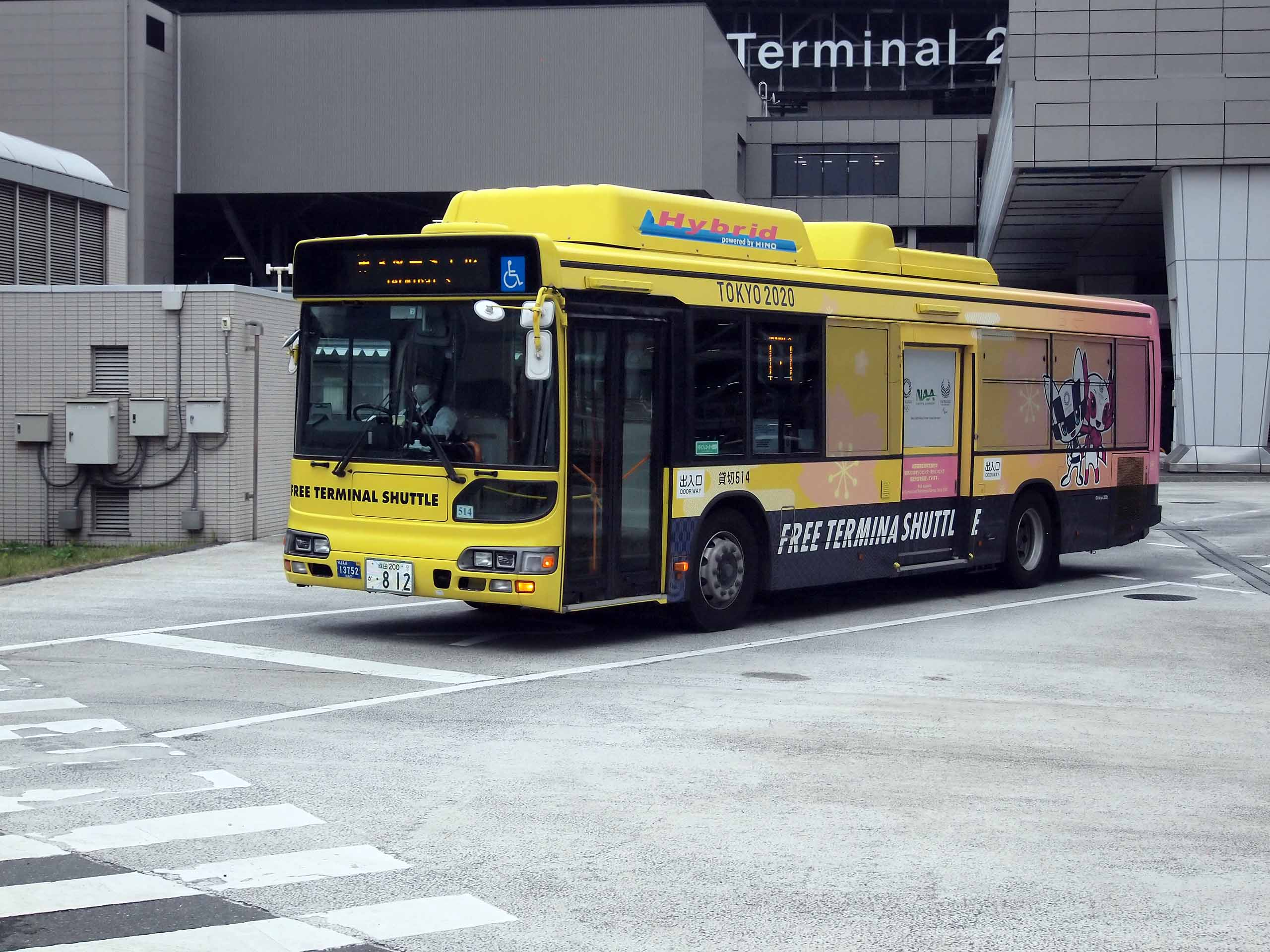 Terminal Connection Bus in Narita International Airport, operated by Narita Airport Transport. Model: Hino Blue Ribbon City Hybrid LJG-HU8JMGP (maybe) License plate: CBR200 KA0812